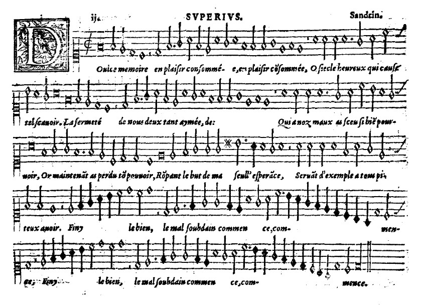 One page of Phalèse's Septiesme livre des chansons à quatre parties (Louvain : 1570).